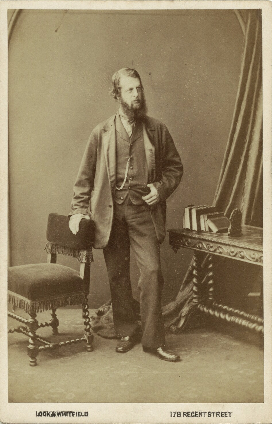 by Lock & Whitfield, albumen carte-de-visite, 1862